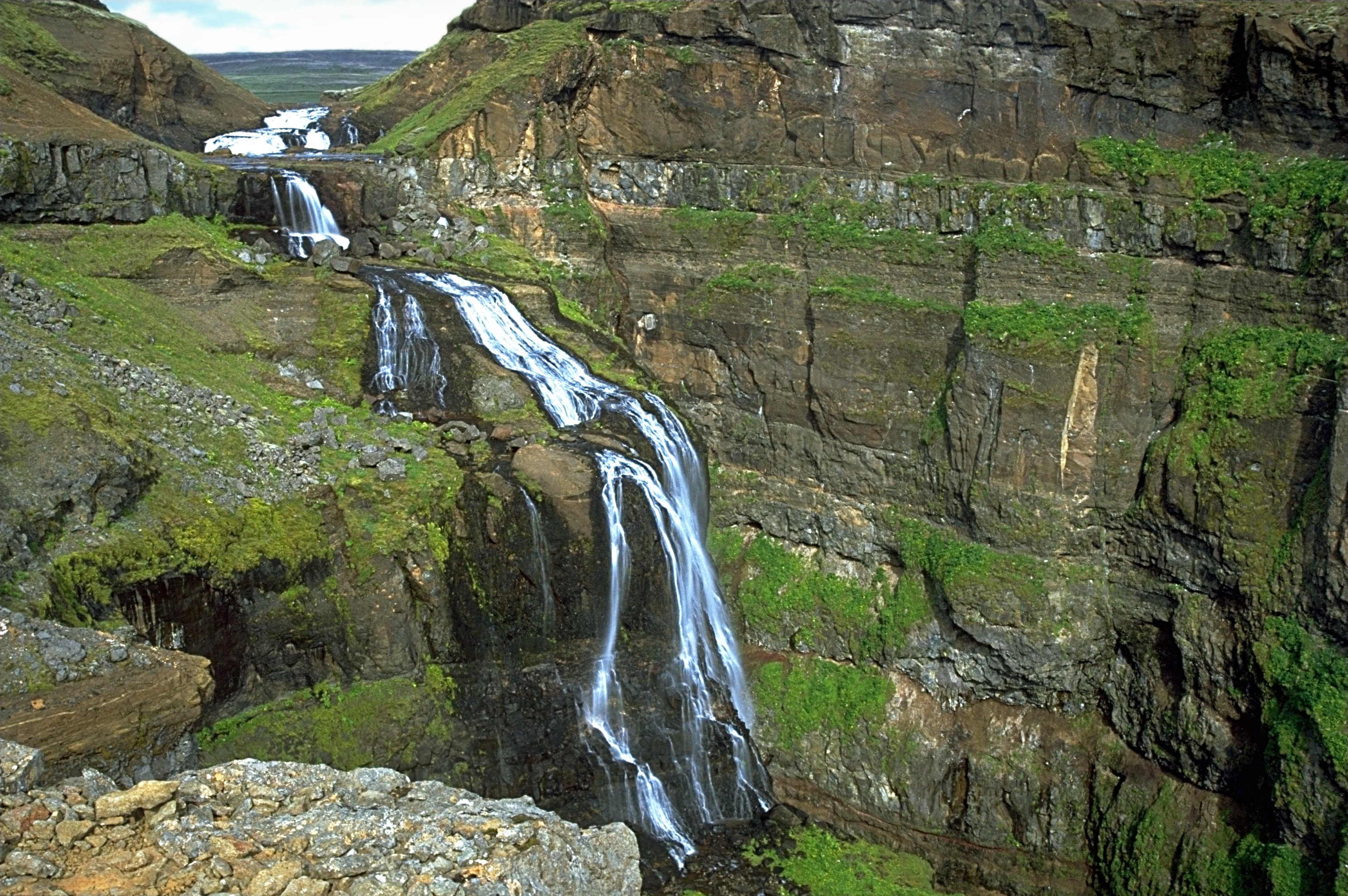 Glymur Photo was taken using the following technique: Film: Fuji Velvia Lens: 4/35-70 Filter: none Body: Minolta Dynax 7 Support: Manfrotto 190B Image with Information in English Bild mit Informationen auf Deutsch